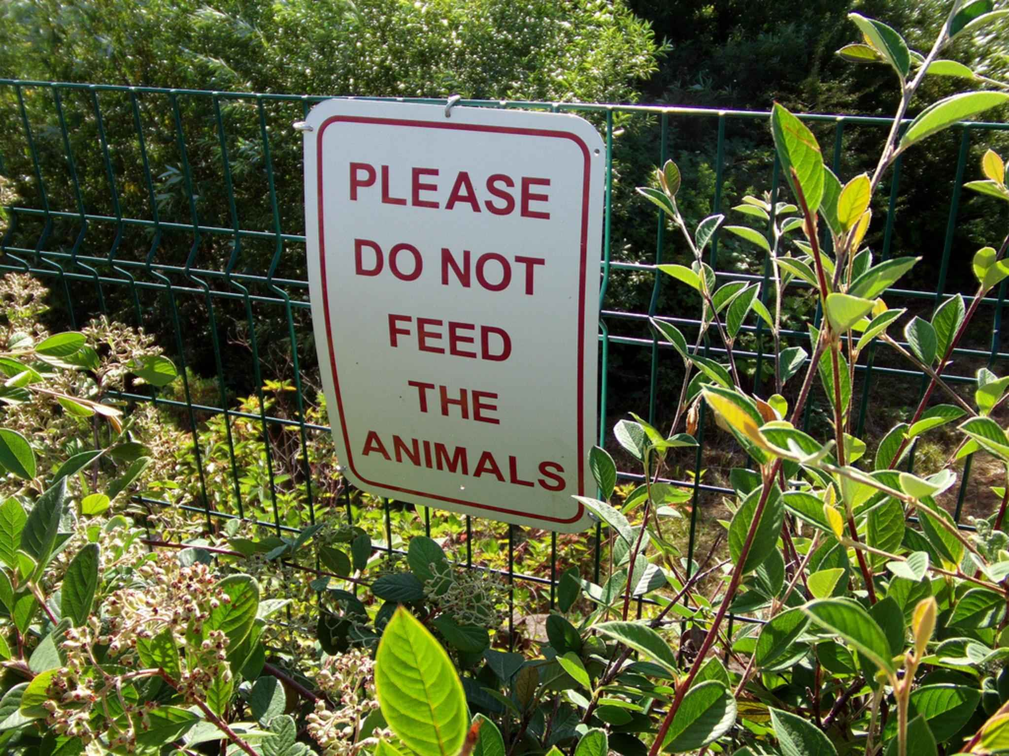 Image title: Sign advising not to feed the animals Image from Public domain images website